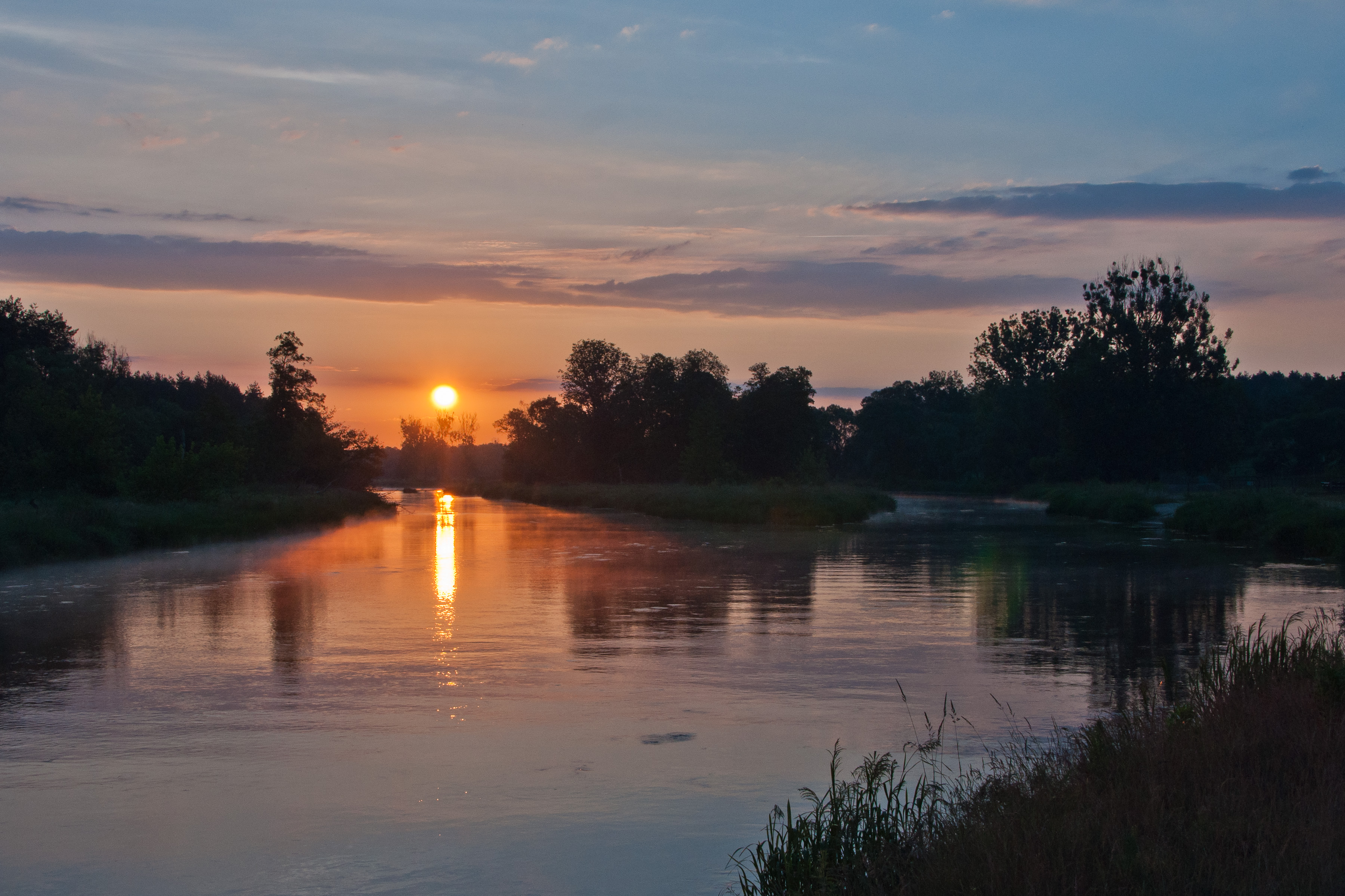 Sunrise over the Warta river